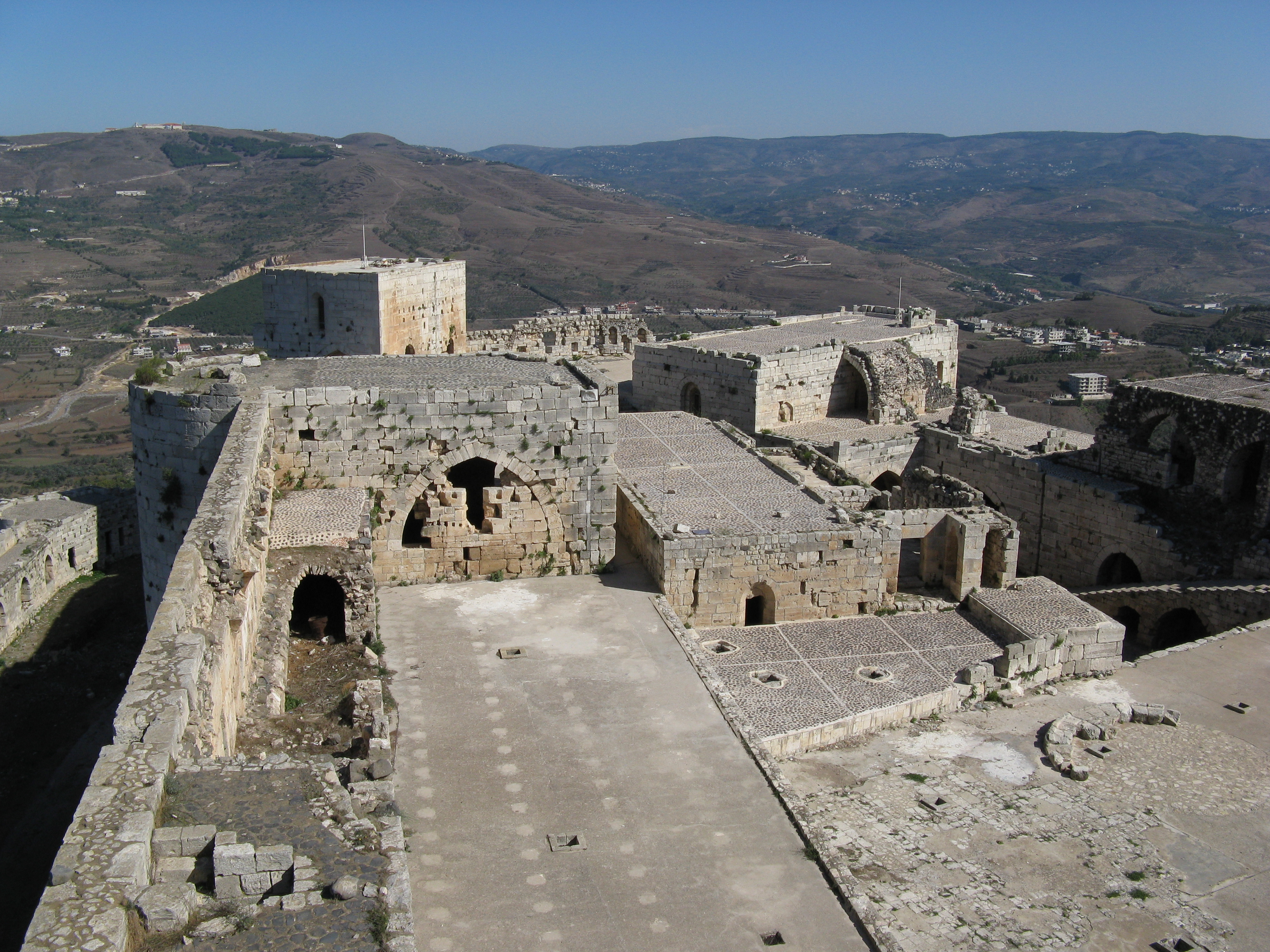 On the top of Krak des Chevaliers